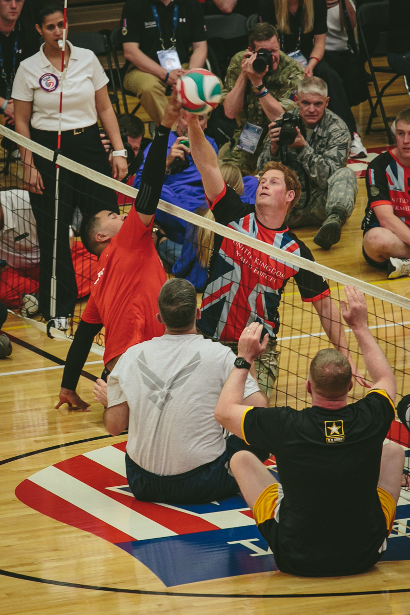 Wounded, ill and injured service member’s from the Marine Corps, Army, Navy/Coast Guard and SOCOM showcased their athletic abilities during a heated seated volleyball match against Prince Harry and the British team. For the All-Marine team the Games provides opportunities for them to train as athletes, while increasing their strength so they can continue with military service or develop healthy habits for life outside the service. The forth annual Warrior Games will be held at the Olympic Training Center and Air Force Academy in Colorado Springs, Colo., May 10-16. Athletes will have a chance to compete in swimming, track and field, volleyball, wheelchair basketball, cycling, shooting and archery. The All-Marine team will defend their first place title against the Army, Navy /Coast Guard, Air Force and SOCOM. Photo by Patrick Onofre